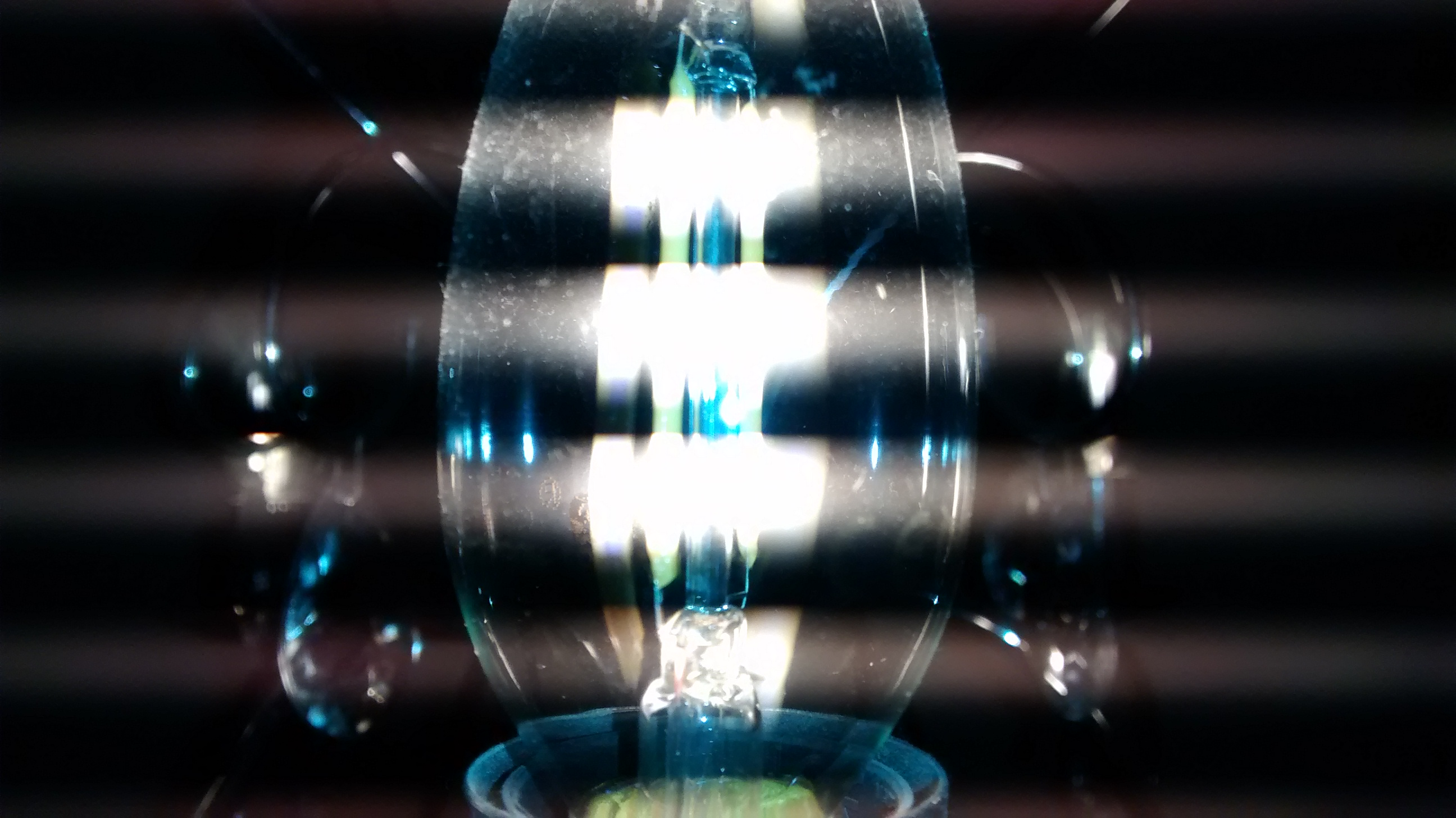 Filament LED dimable flickering interference with digital camera